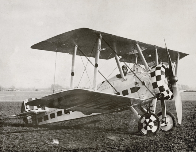 United Kingdom: England, Gloucestershire, Leighterton. Captain A. H. Cobby , DSO, DFC and two Bars sitting in the cockpit of Sopwith Camel fighter aircraft. He was officially credited with the confirmed destruction in combat of twenty nine machines, the highest number of any Australian airman of the First World War and therefore Australia's leading "Ace". Note the chequered paint scheme on this aircraft which indicated its pilot was an instructor at the time. Cobby noted that this was "the best Camel he could find" and he flew it regularly during his posting to Number 8 Squadron (training) at Leighterton.